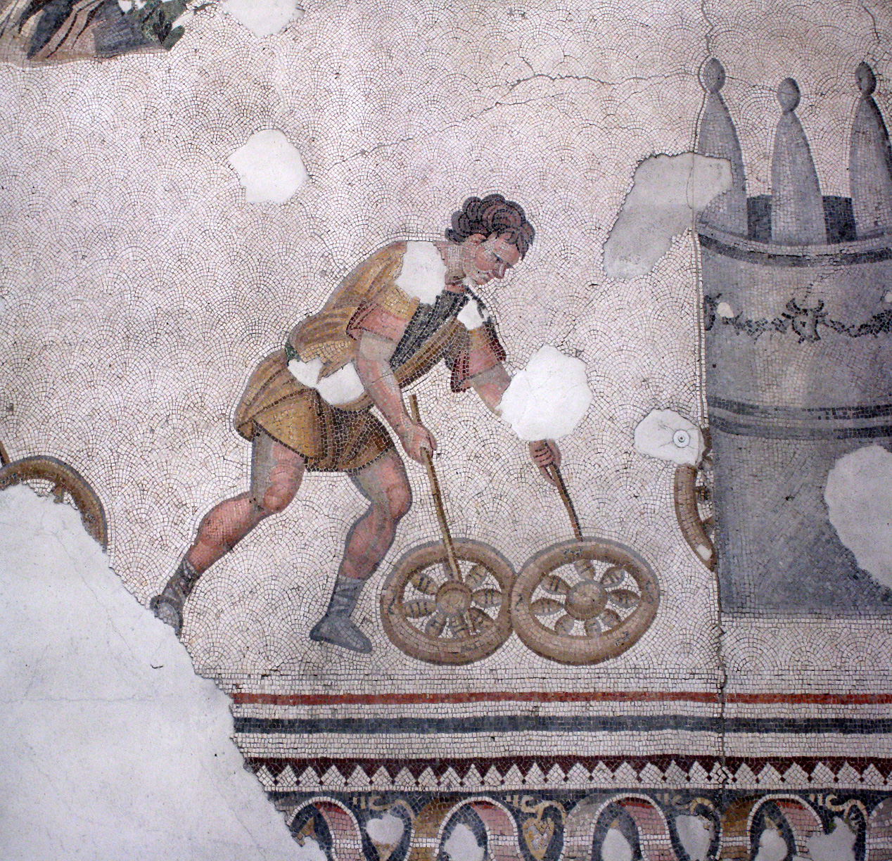 Mosaic of a child playing with hoops (trochos). Byzantine, 6th century AD. From the Great Palace of Constantinople; on display in the Great Palace Mosaic Museum, Istanbul.